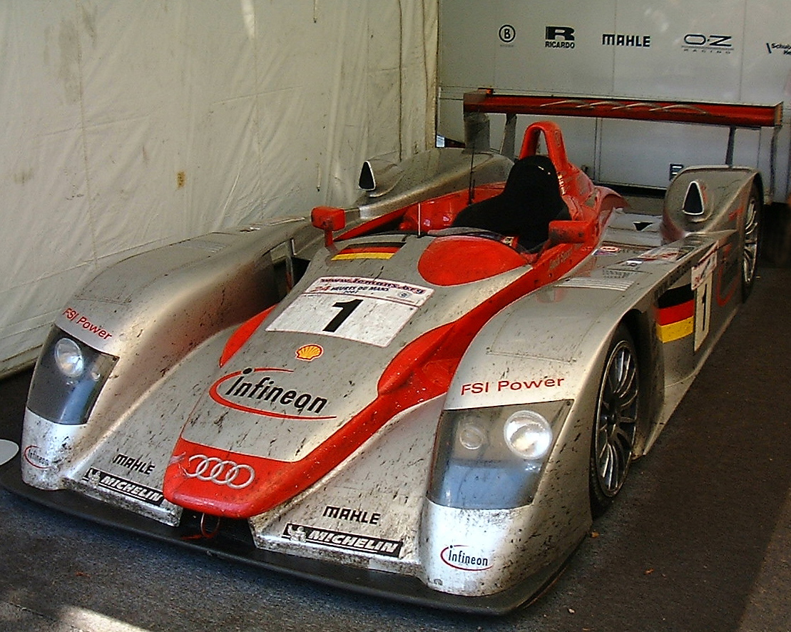 Audi R8 LMP900 Racing Sportscar. Winner of the 2002 24 Hour Le Mans. Picture taken at The Goodwood Festival of Speed.